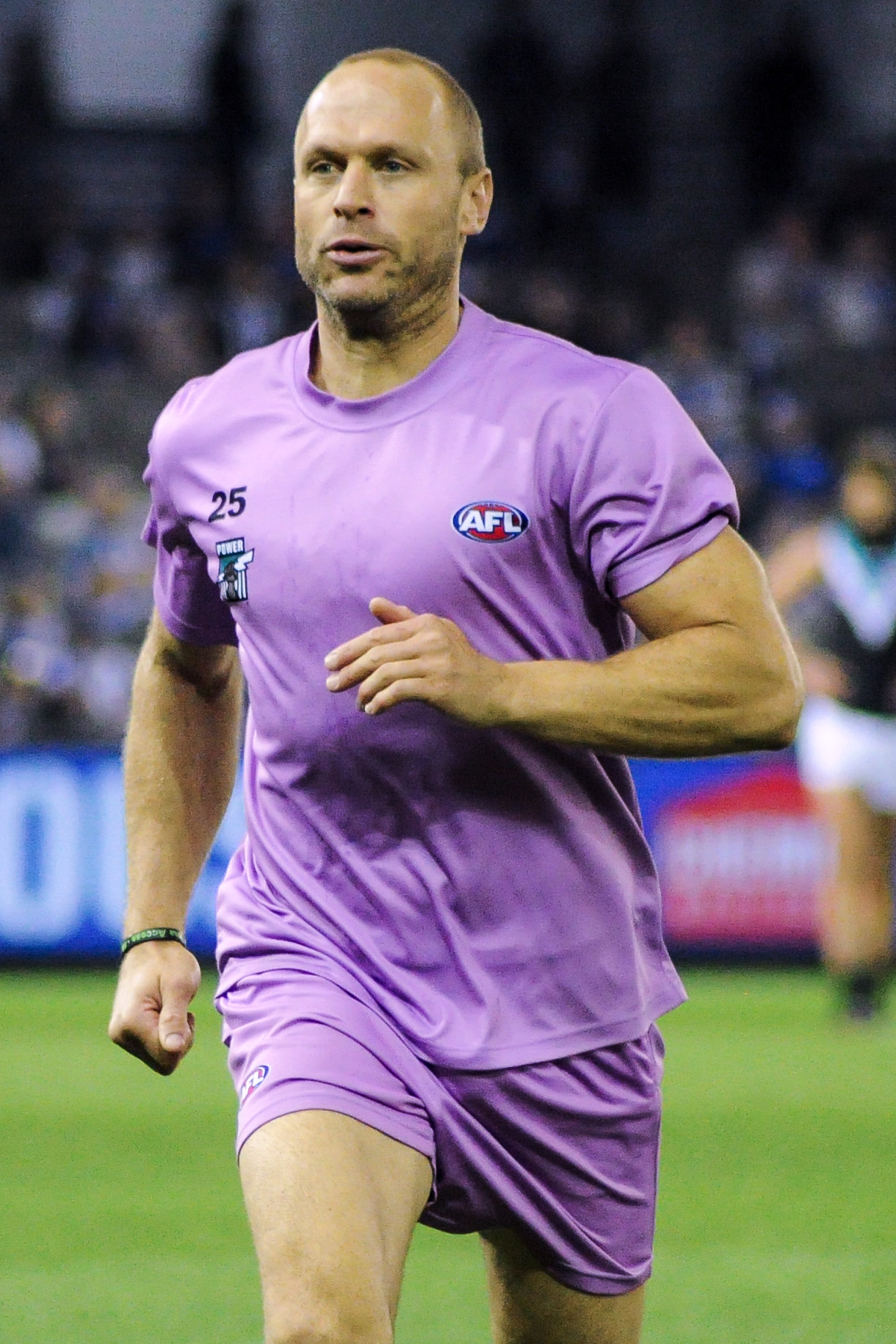 Chad Cornes during the AFL round six match between North Melbourne and Port Adelaide on Saturday, 28 April 2018 at Etihad Stadium in Melbourne, Victoria.